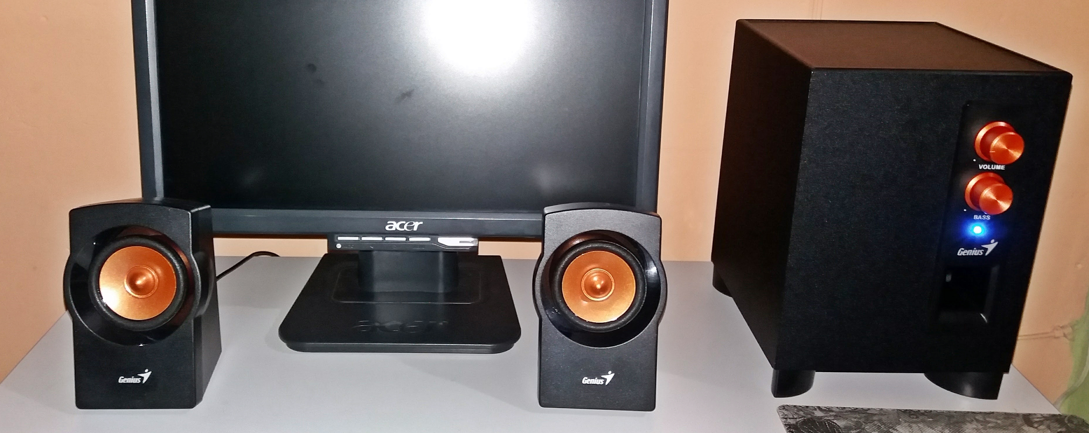 Front of a Genius SW 2.1 360 subwoofer and satellite system